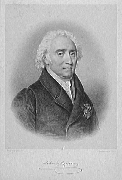 Hugues Bernard Maret, duc de Bassano, frenc statesman